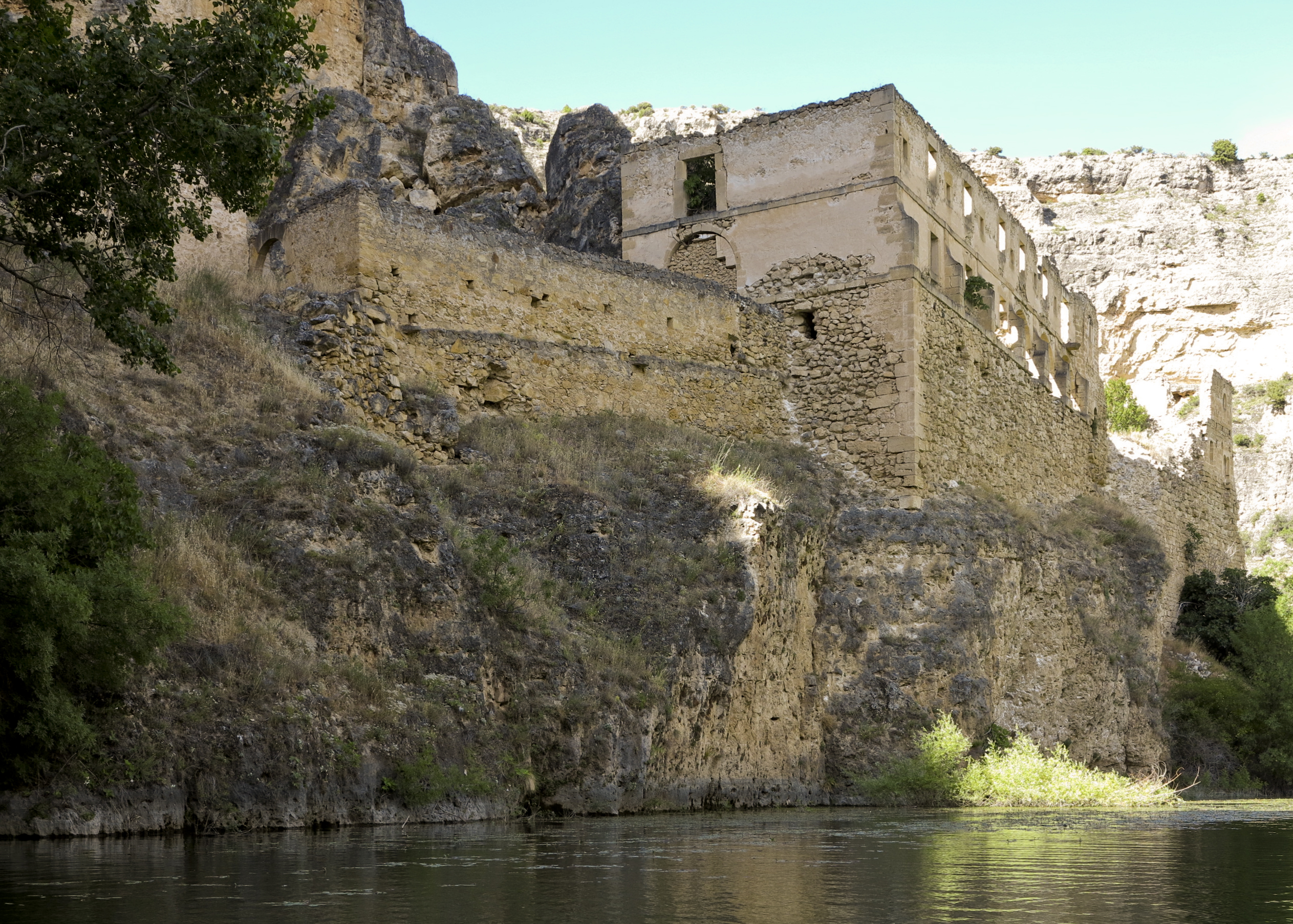 Monasterio de Nuestra Señora de la Hoz/Convento de la Hoz. Hoces de Duraton, Sepúlveda, Provincia de Segovia, Castilla y León, Spain.